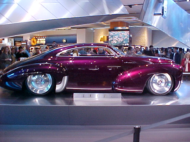 Holden Efijy at the 2007 North American International Auto Show, Detroit, Michigan, United States.